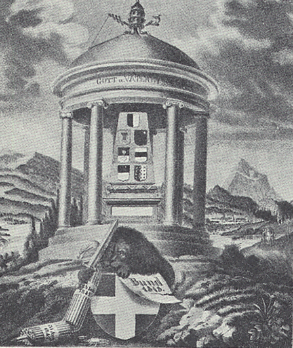 Caricatural representation of the 7 Swiss-states of the Sunderbund. Abb.: Konservatives Flugblatt: Der Sonderbund.